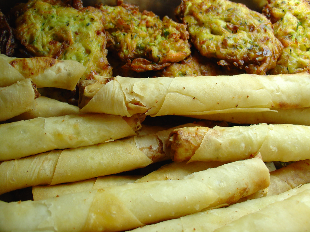 Mücver and sigara böreği -- More of the fine turkish food we had on our party.